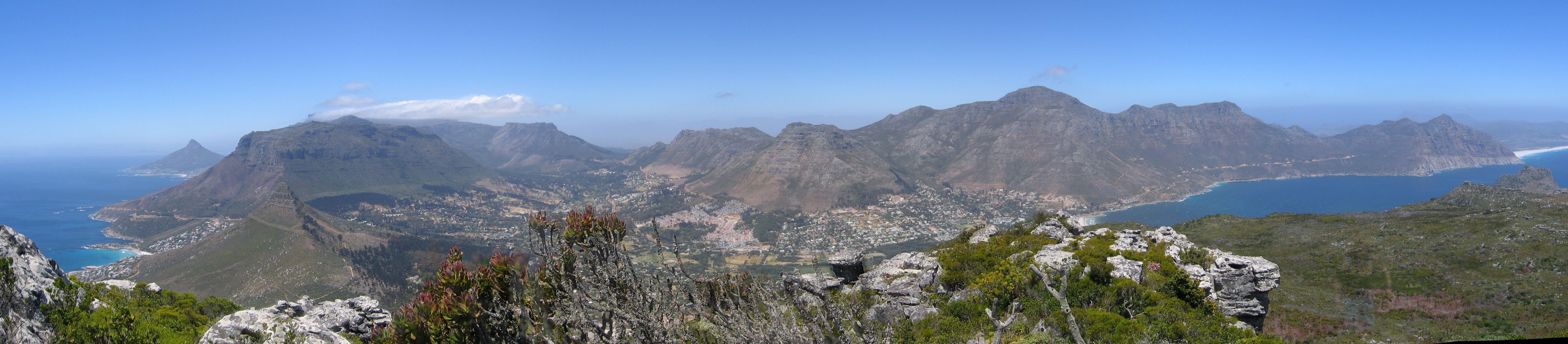 A panorama of Hout Bay, Cape Town, taken from Suther Peak, to the north-west of the village. (Created with Autostitch.)